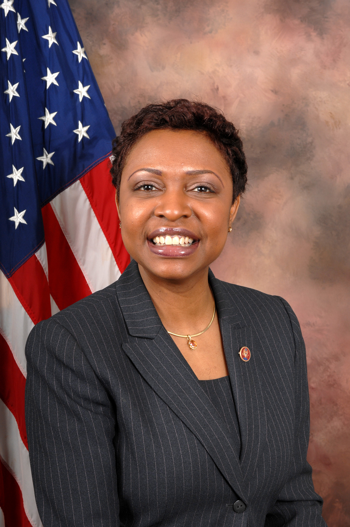 Yvette Clarke, member of the United States House of Representatives.